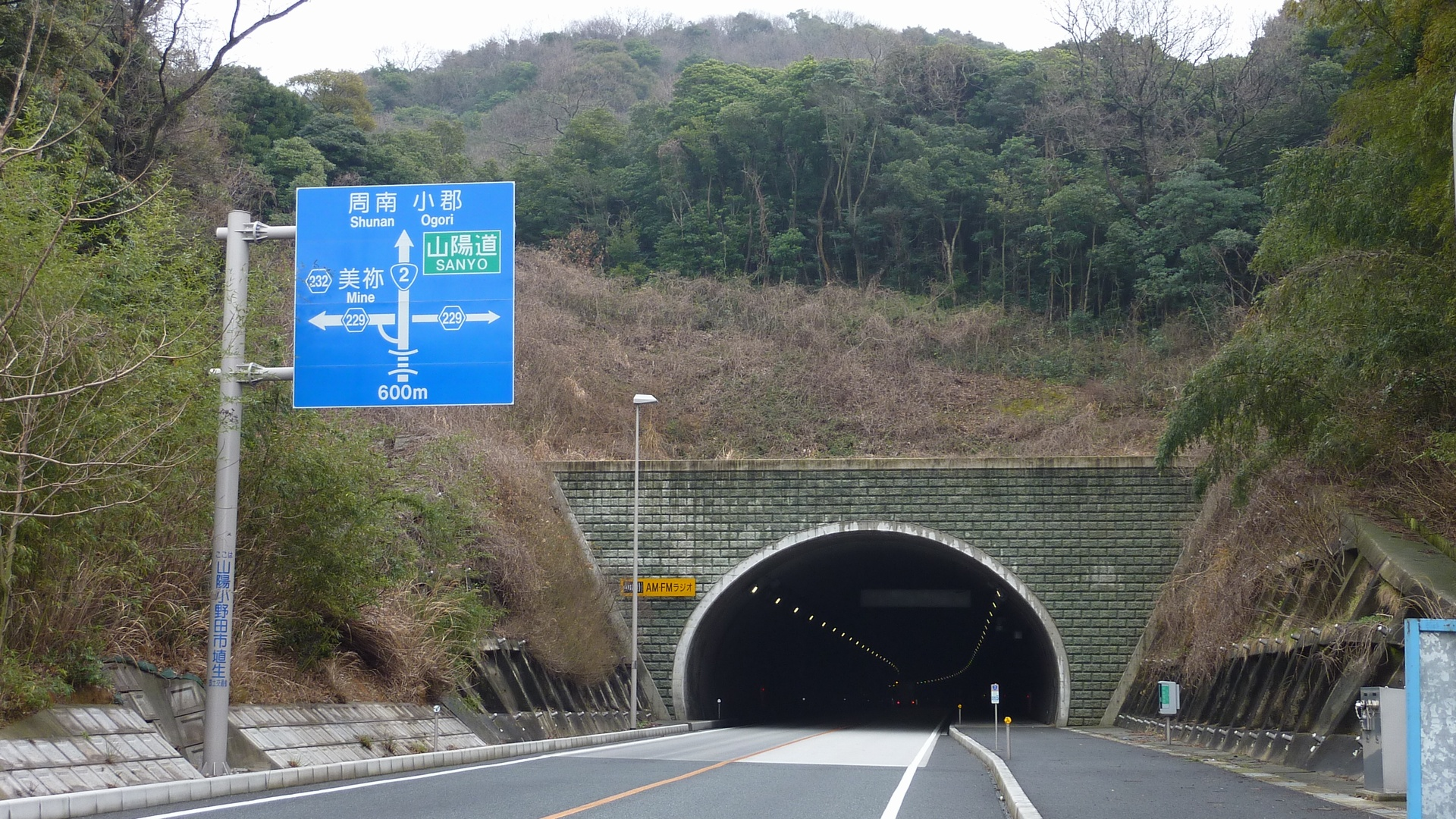 National Route 2 Habu Bypass - Sanyo-Onoda City, Yamaguchi Prefecture, Japan.